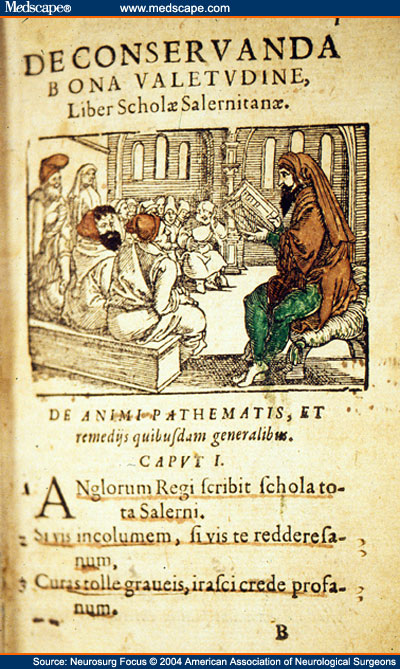 An early illustrated work dealing with the school of Salerno. The cover shows Constantine the African lecturing to the school.